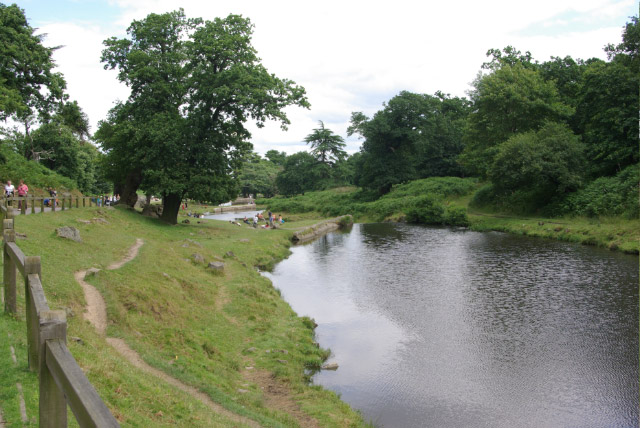 River Lin, Bradgate Park The River Lin ambles through Bradgate Park before feeding Cropston Reservoir. It is ultimately a tributary of the River Soar.